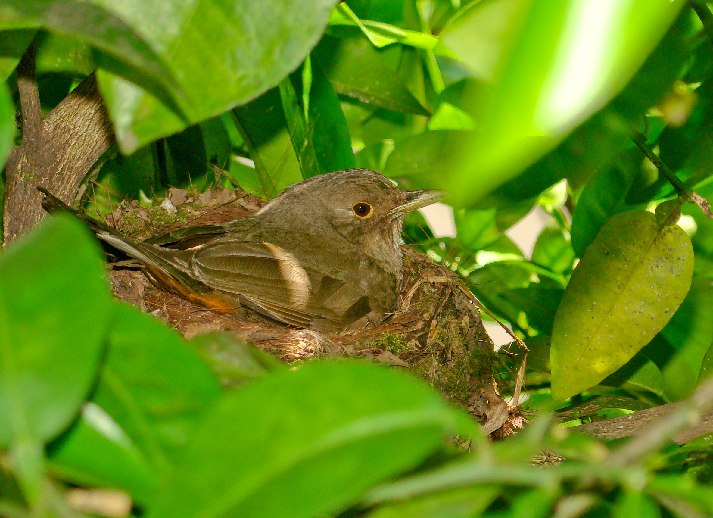 Rufous-bellied thrush (Turdus rufiventris) in its nest.